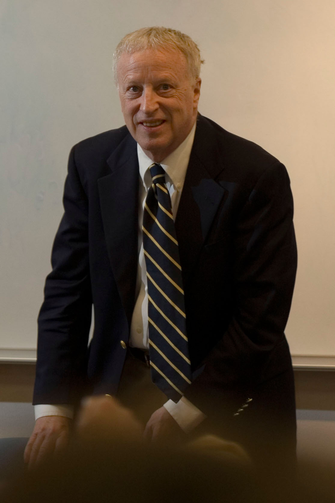 Geroge A. Akerlof, Nobel economics Laureate, at Berkeley.